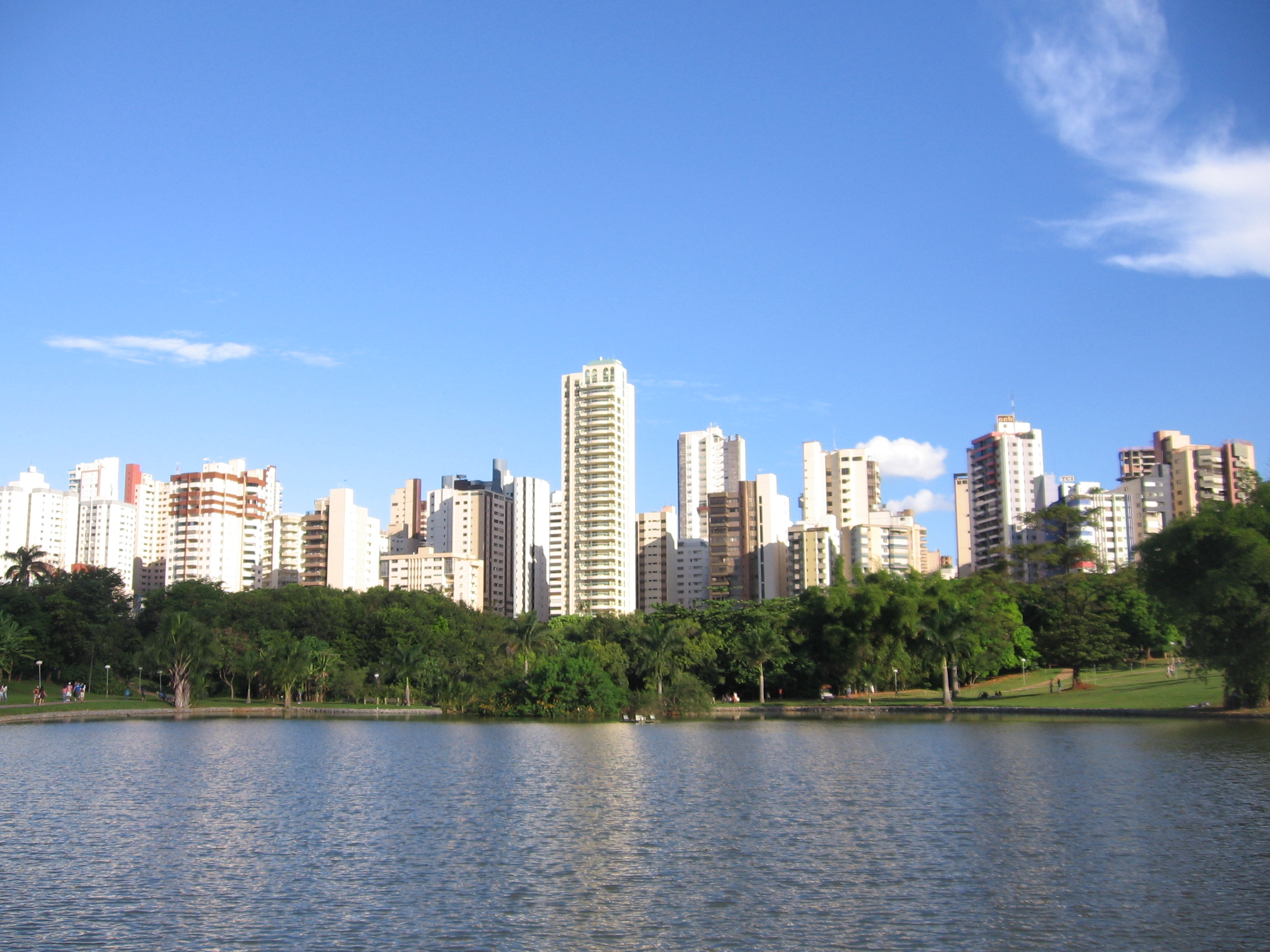 Vaca Brava park in Goiânia, Brazil.